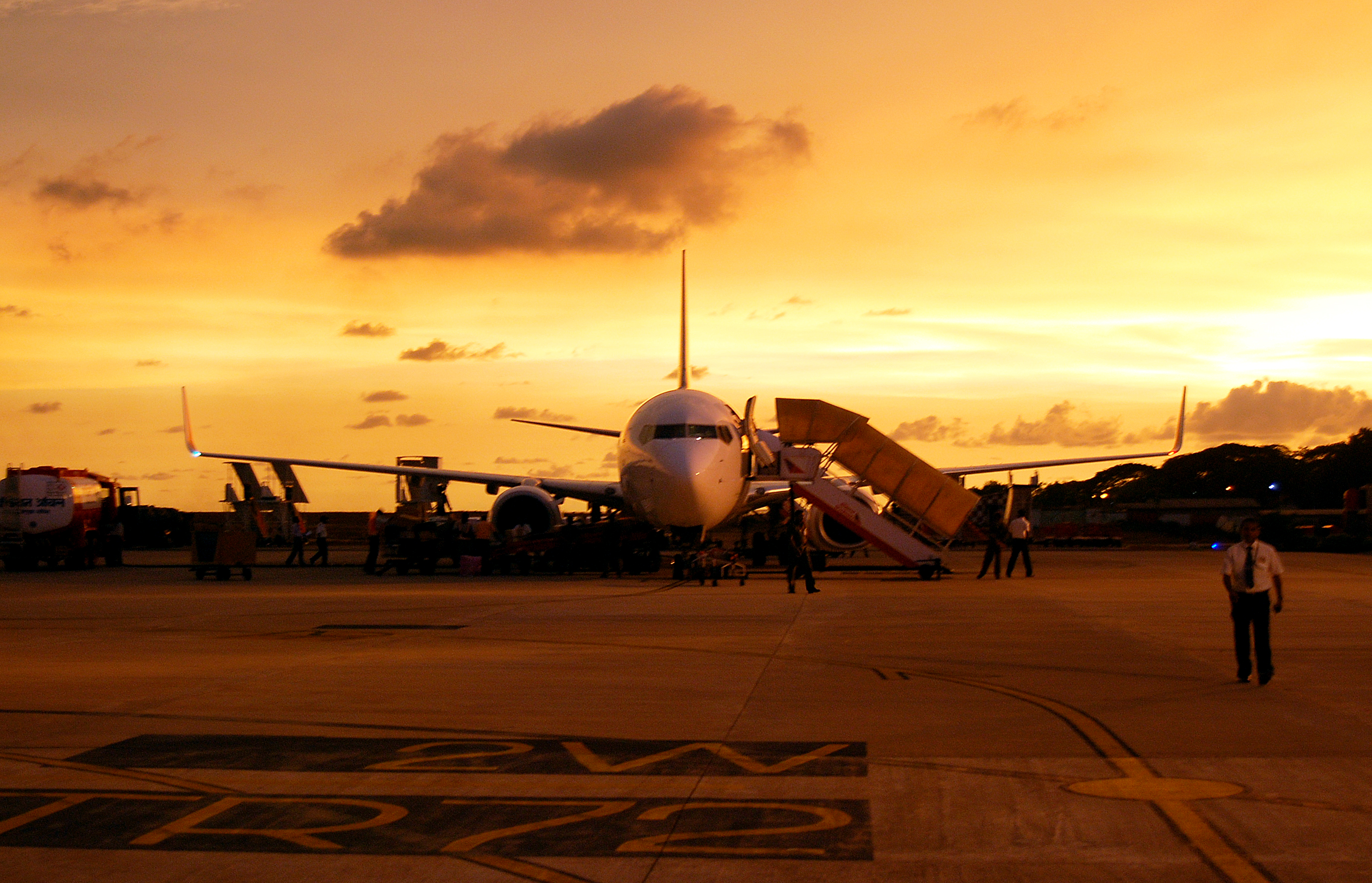 Air India Express Boeing 737 at Mangalore Airport